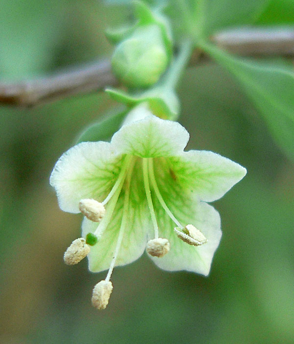 Lycium pallidum at the Springs Preserve garden, Las Vegas, Nevada